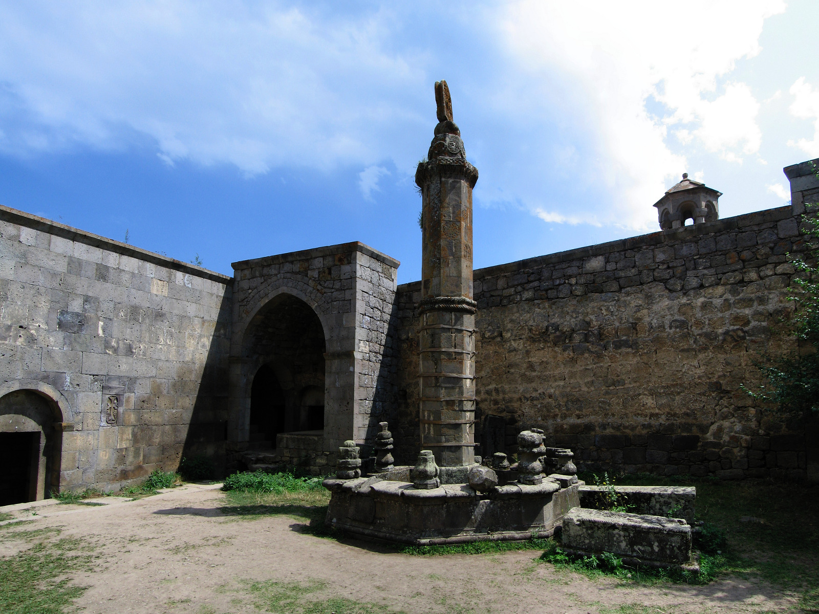 Tatev Seismograph